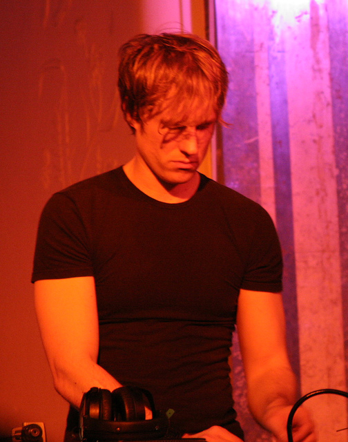 Alec Empire in Berlin on December 31, 2005.